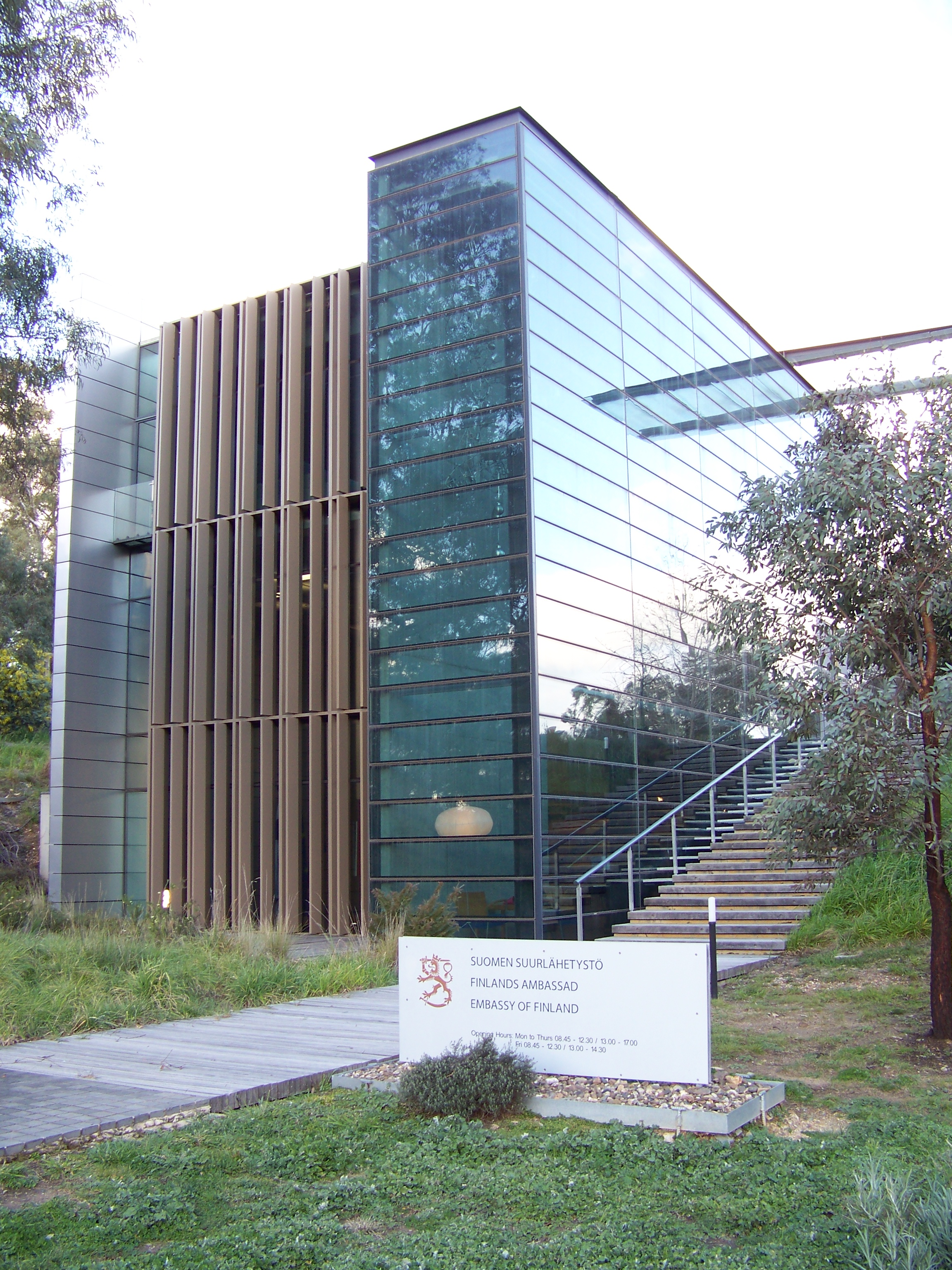 Finnish embassy in Canberra